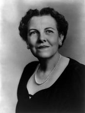 Former Congresswoman Cecil Murray Harden of Indiana.